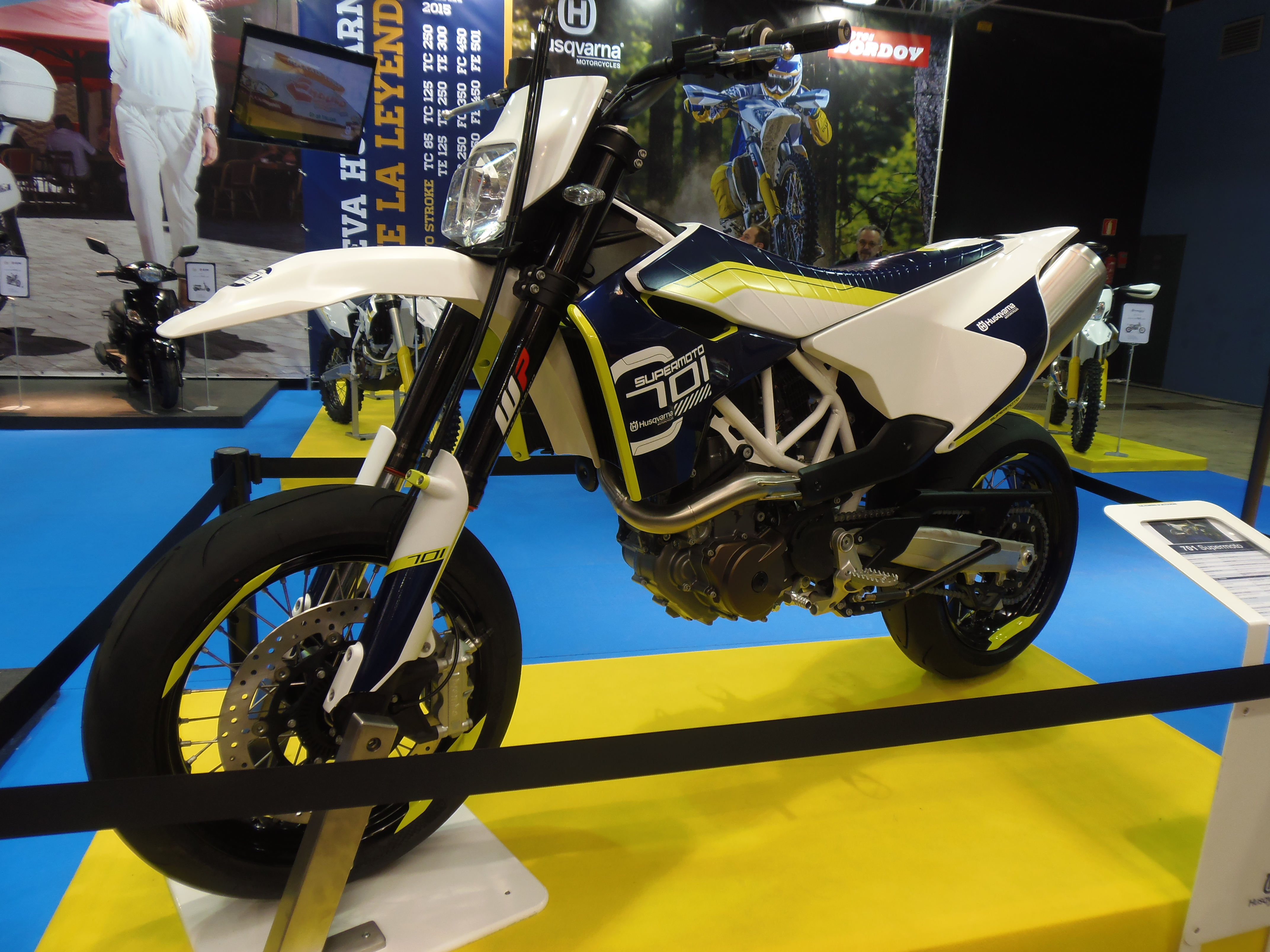 Husqvarna 701 Supermoto, 2015